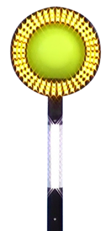 TWM's Full Compliant LED DayBright Plus zebra enhancement